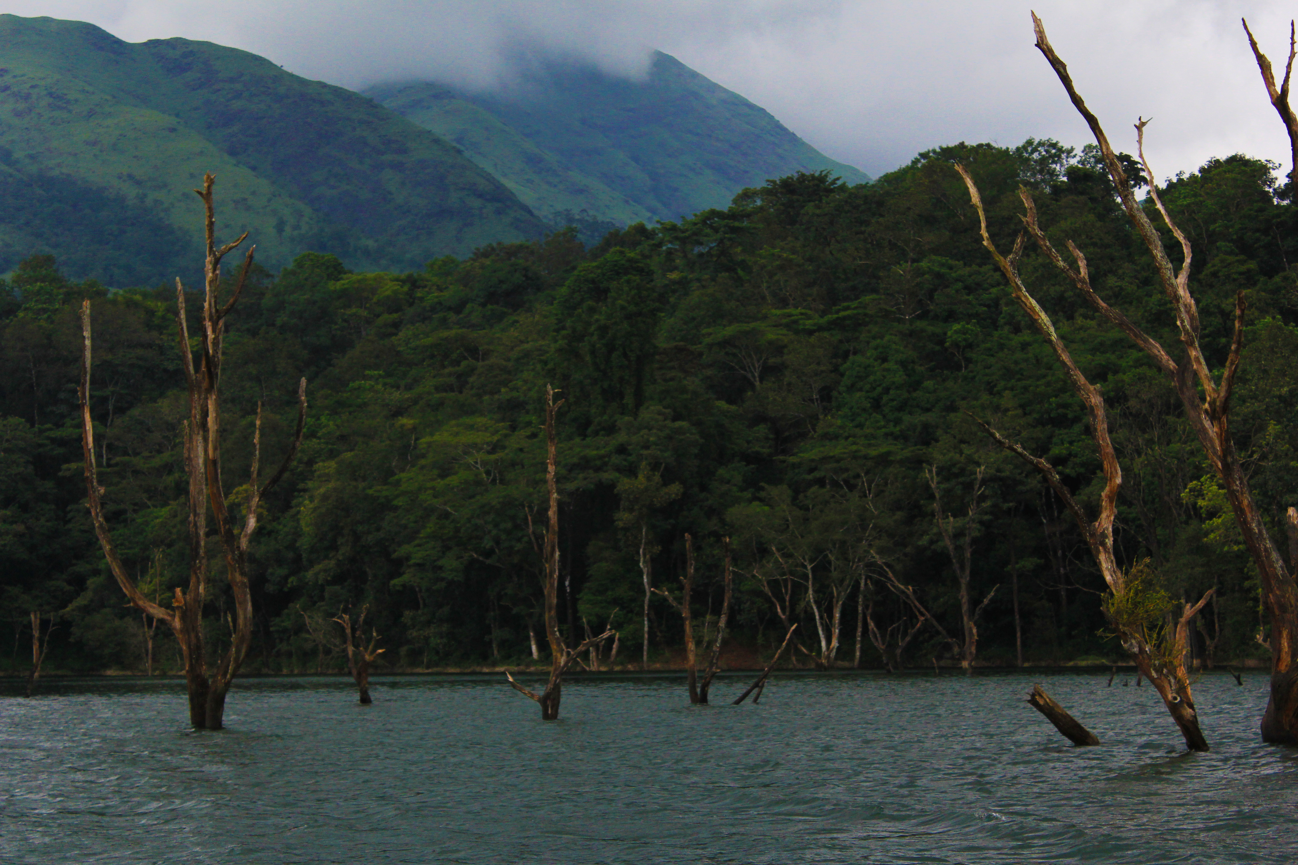 view from banasura sagar dam